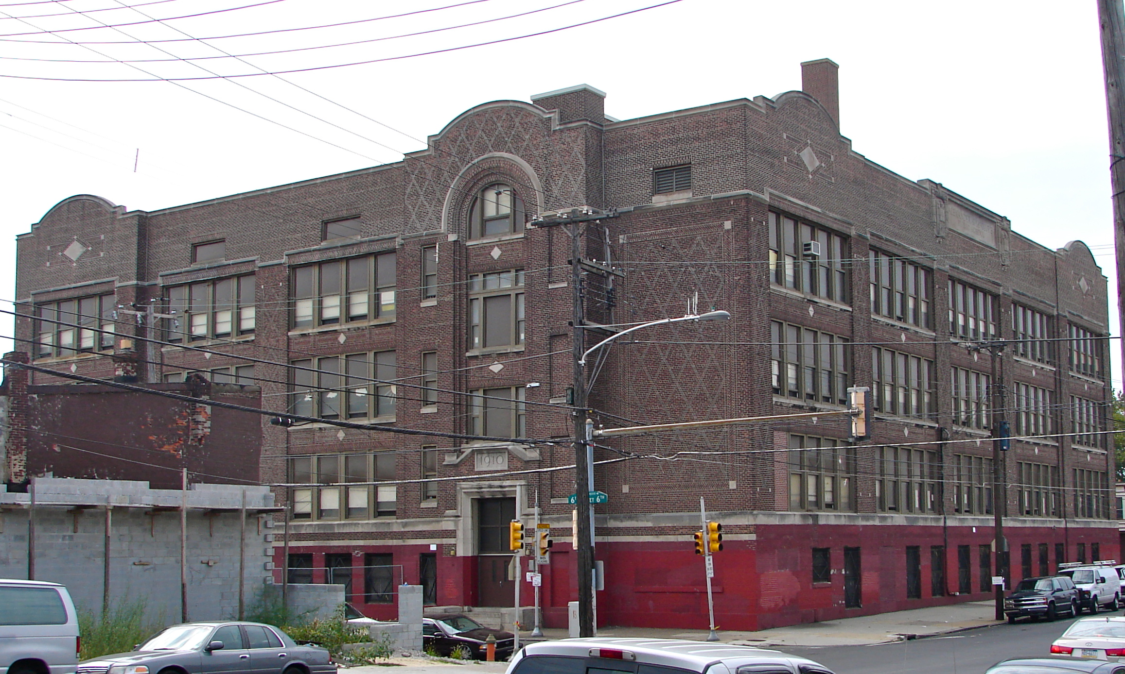 Alexander K. McClure School in Philadelphia on the NRHP since November 18, 1988. At 4139 North 6th St. in the Hunting Park neighborhood of North Philly. Still operating as a school but it looks to be in pretty poor shape. Named after editor Alexander McClure - also a friend of Lincoln's